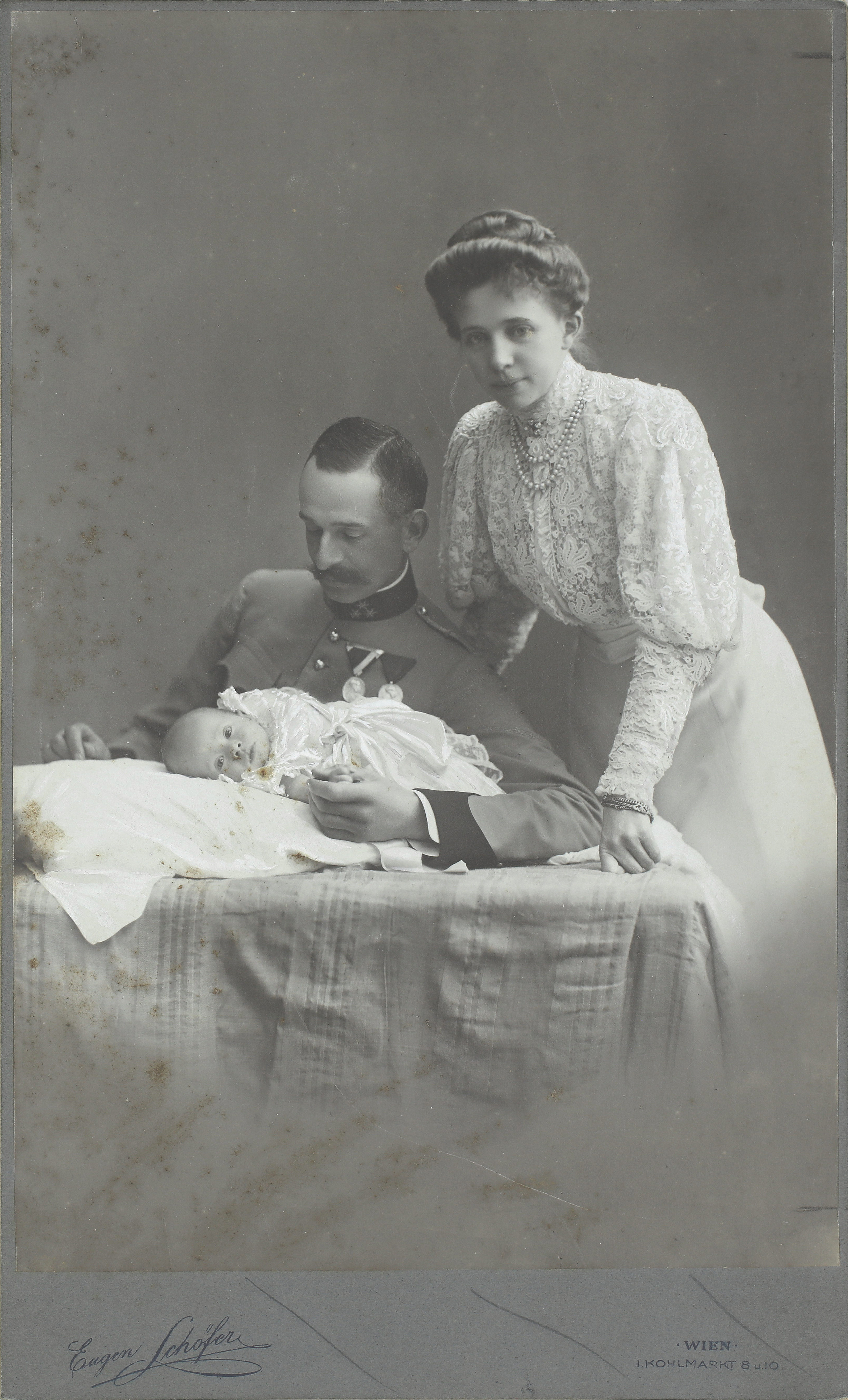 Archduchesse Elisabeth Amalie of Austria (1878-1960), Duchess consort of Liechtenstein, Sister of Franz Ferdinand of Austria, with husband Prince Aloys of Liechtenstein and eldest Son Franz Joseph II Duke of Liechtenstein